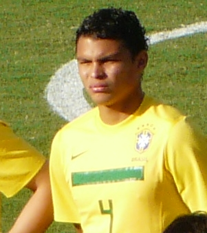 (Brasil 0X0 Holanda)